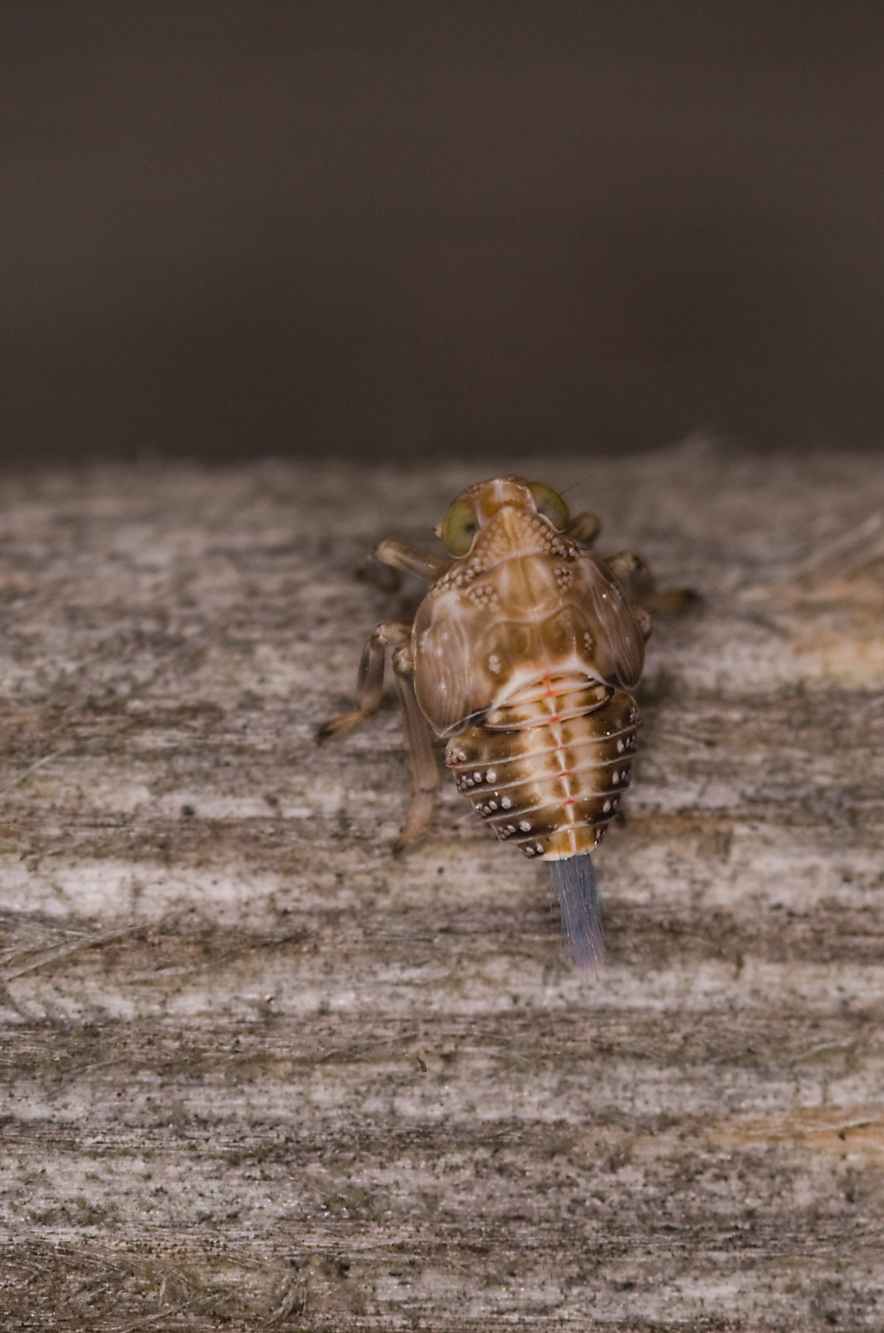 Instar of Issus coleoptratus